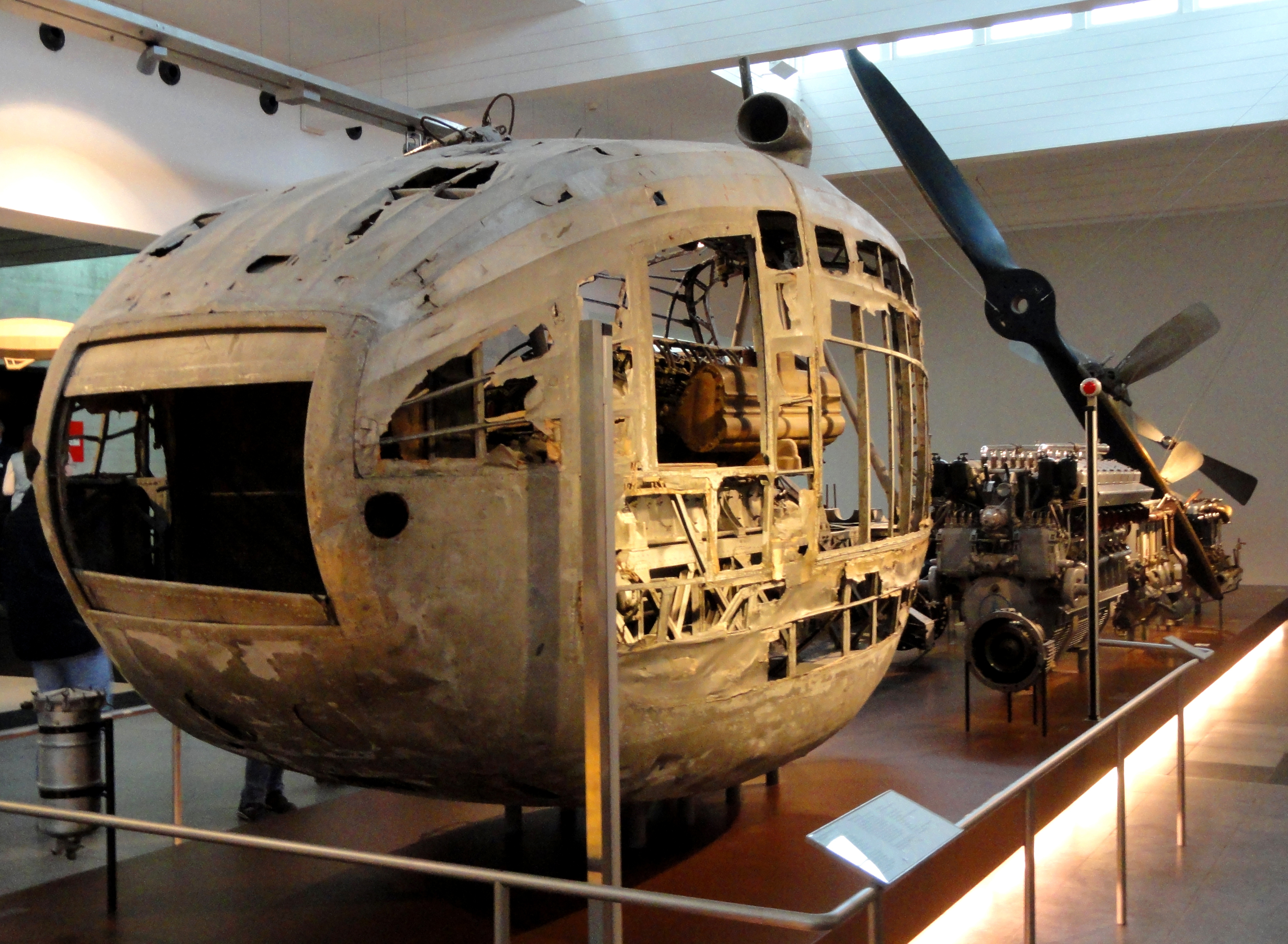 Exhibit in the Zeppelin Museum Friedrichshafen, Seestraße 22, Friedrichshafen, Germany. Photography was permitted in the museum, without restriction.